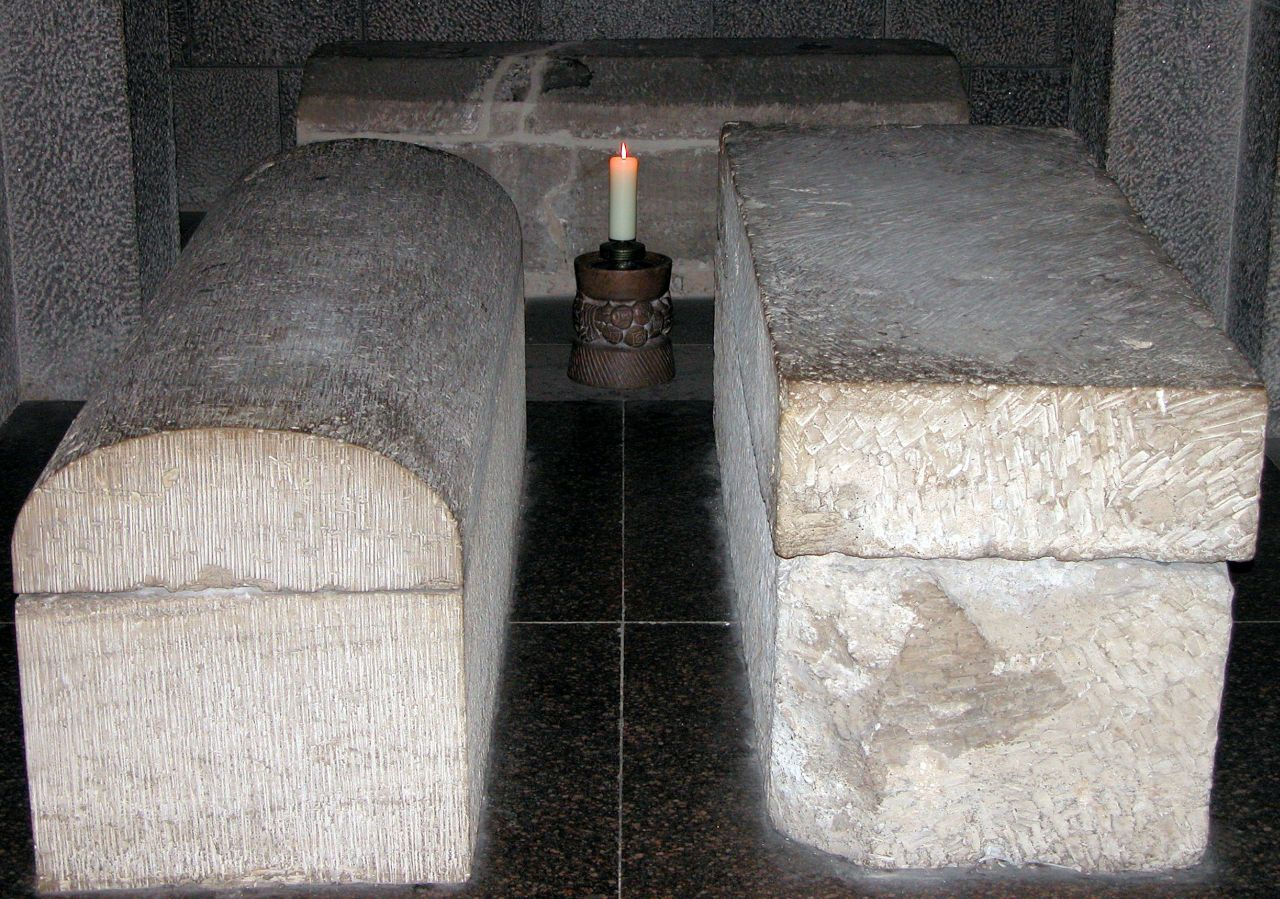 Brunswick Cathedral, Crypt, Tomb of Henry the Lion and Mathilde